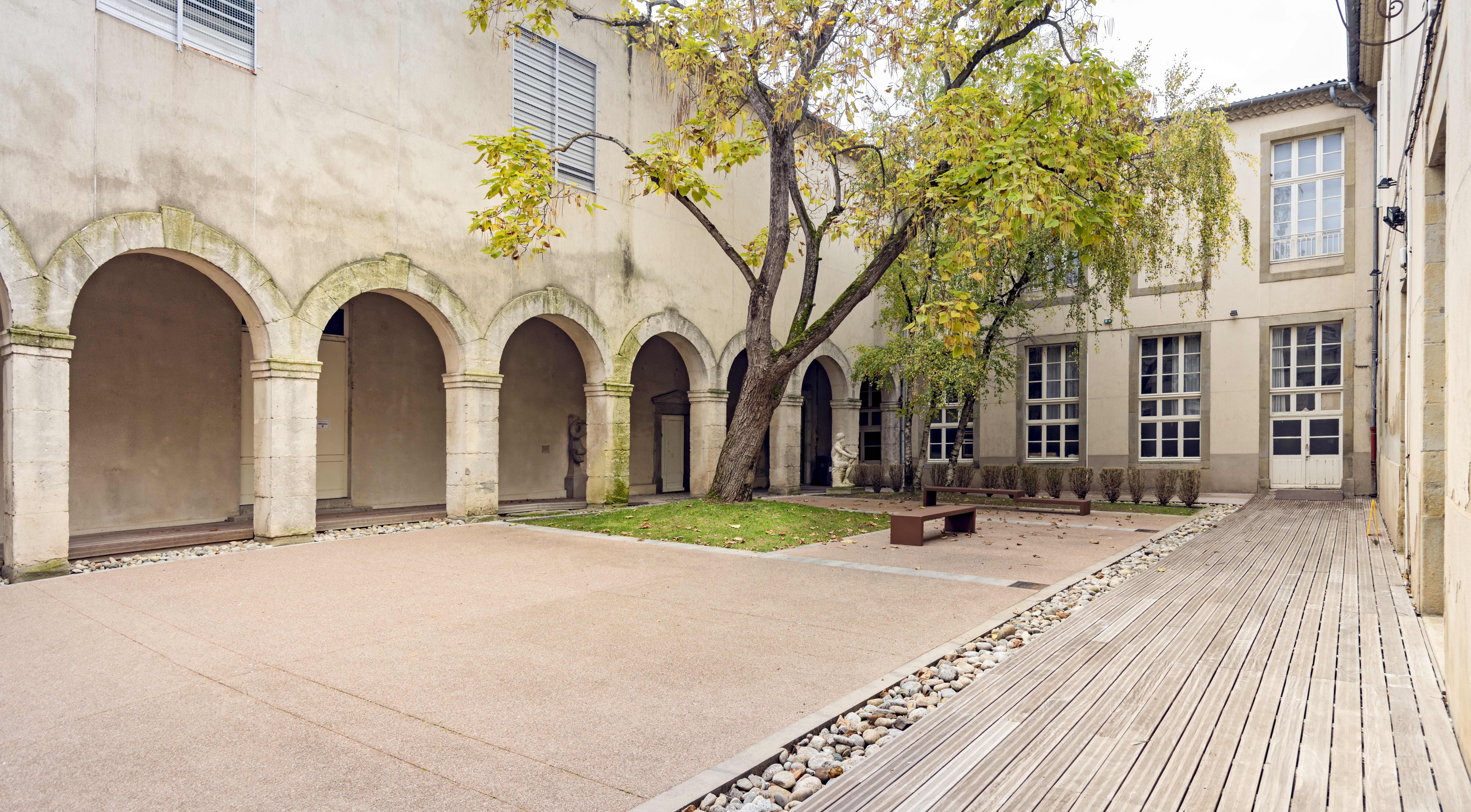 Inner courtyard of the museum